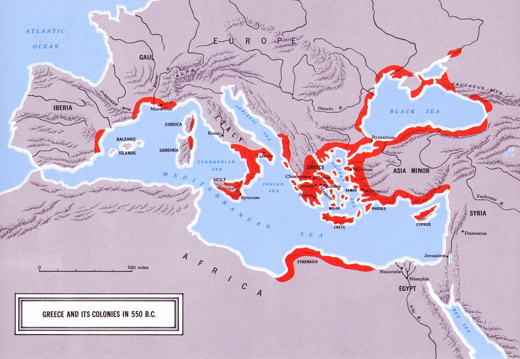 Greece and it's colonies in 550 BC